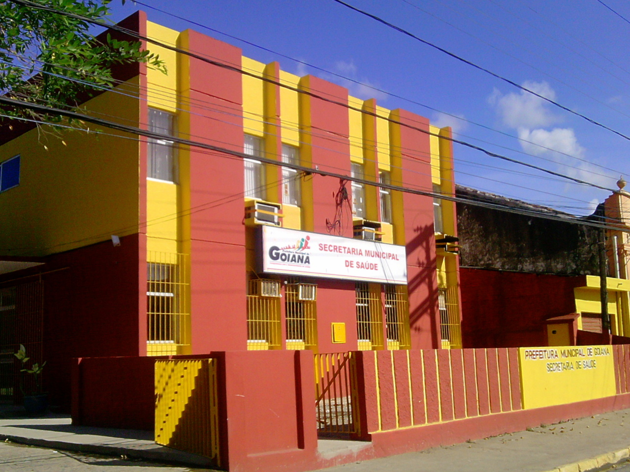 Goiana Downtown